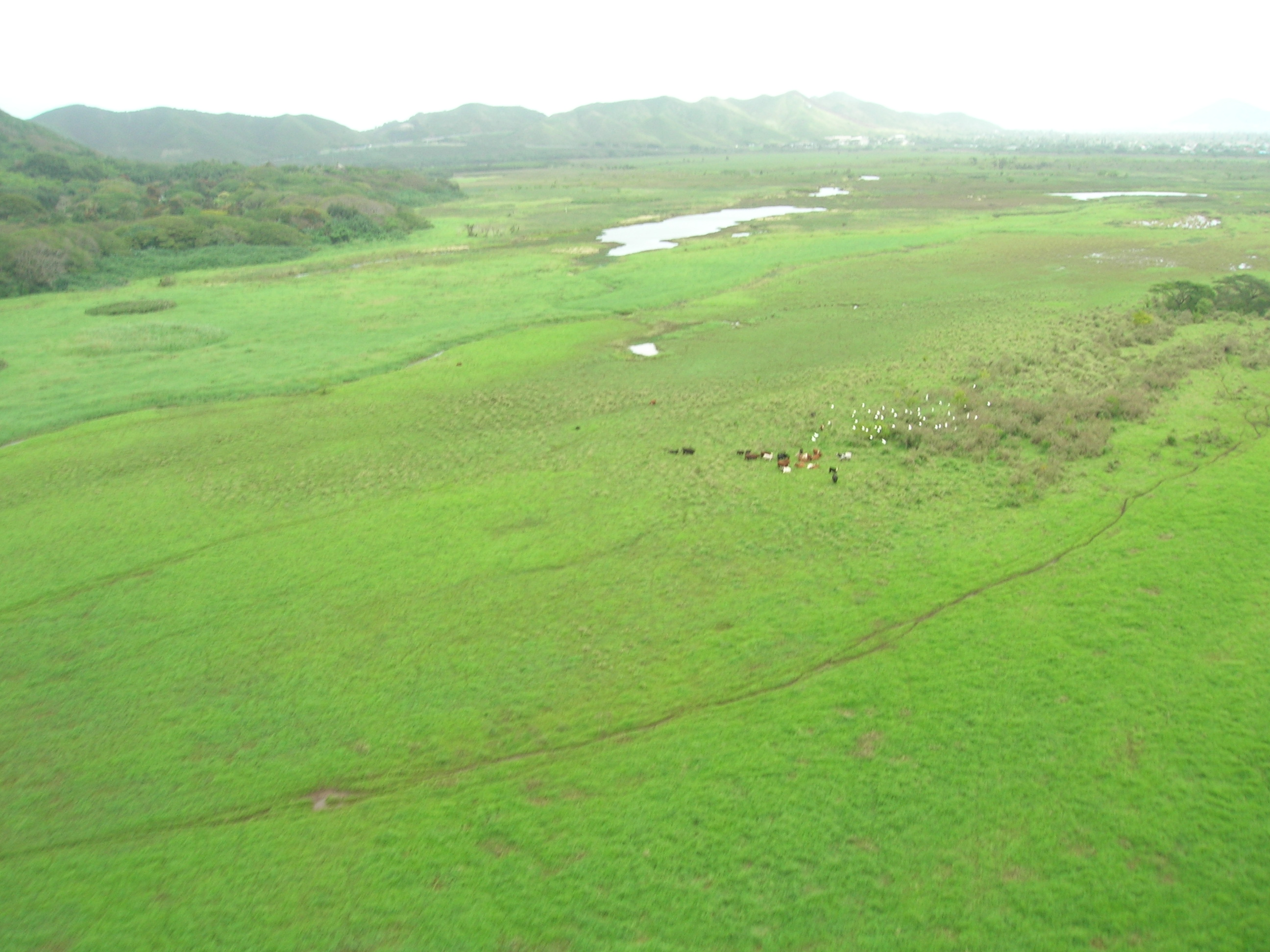 Location: Oahu, Kawainui Marsh